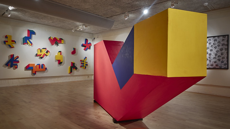 Utställning i Sjöbo konsthall 2018